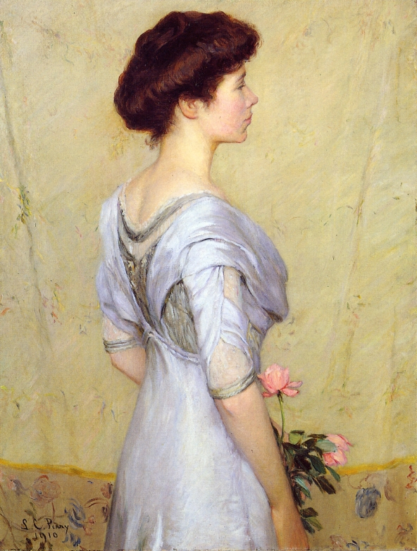 The Pink Rose, private collection